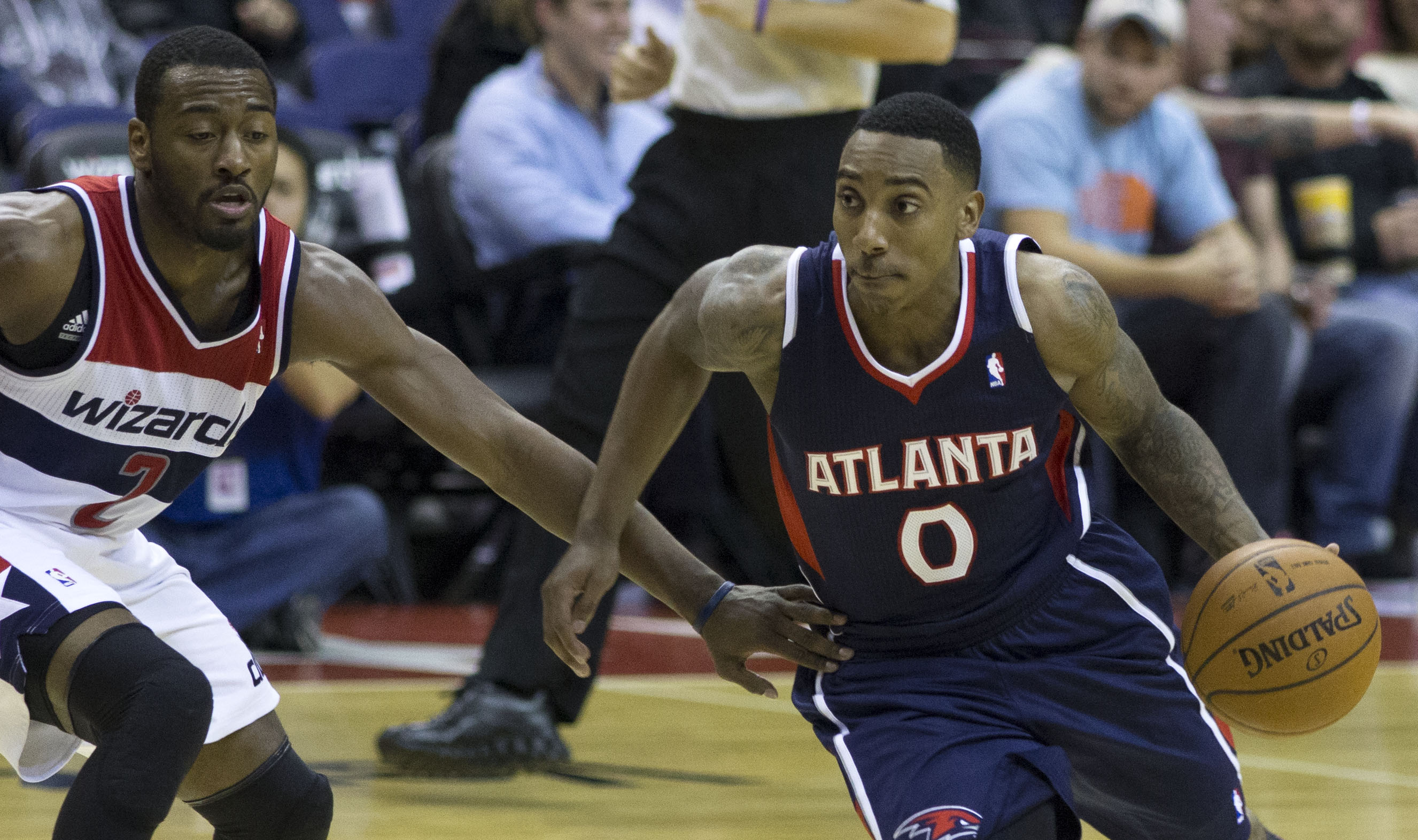 John Wall of the Washington Wizards, and Jeff Teague of the Atlanta Hawks